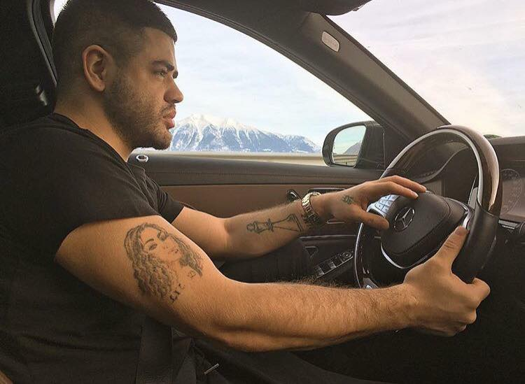 Noizy on September, 2016